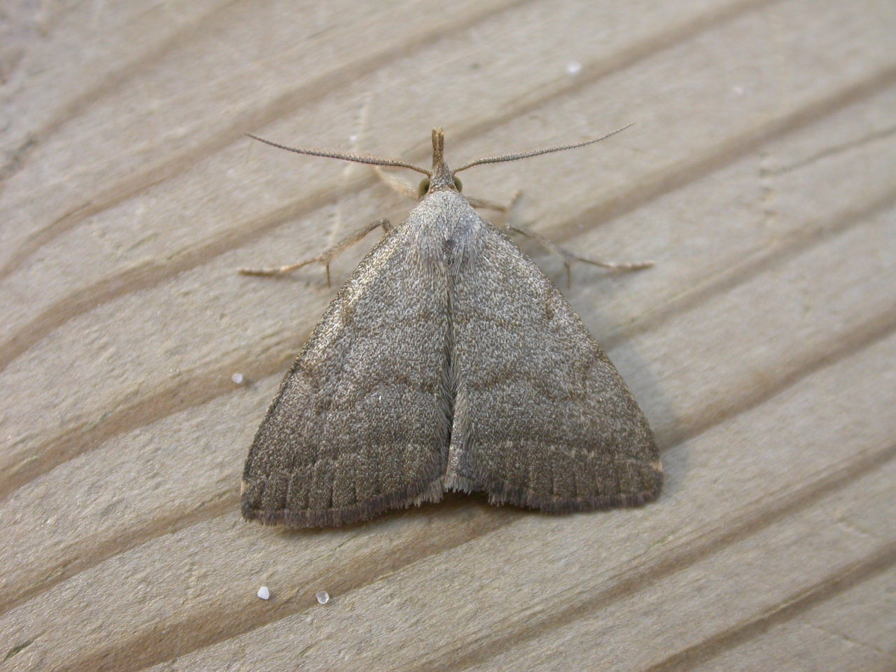 Pechipogo strigilata, Gastes, Landes, SW France, 4/5 July 2003